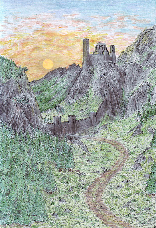 Pass of Aglon, a narrow mountain pass between Ered Gorgoroth to the west and Himring to the east.